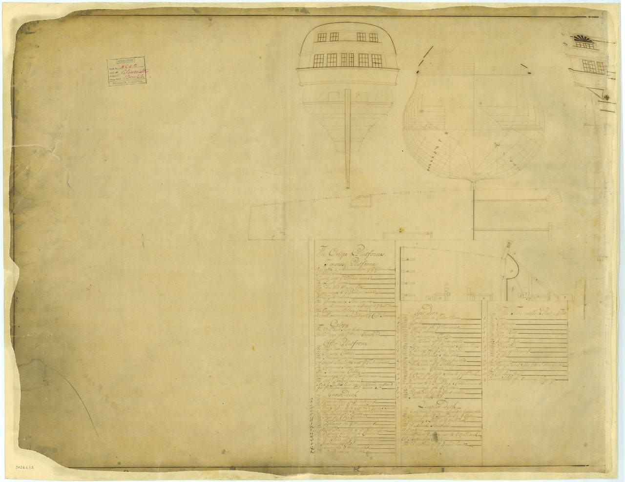 GLOUCESTER 1711 Plan of lines in two parts. The second half is marked page '10 end'. ZAZ6224 to ZAZ6232 form a book.